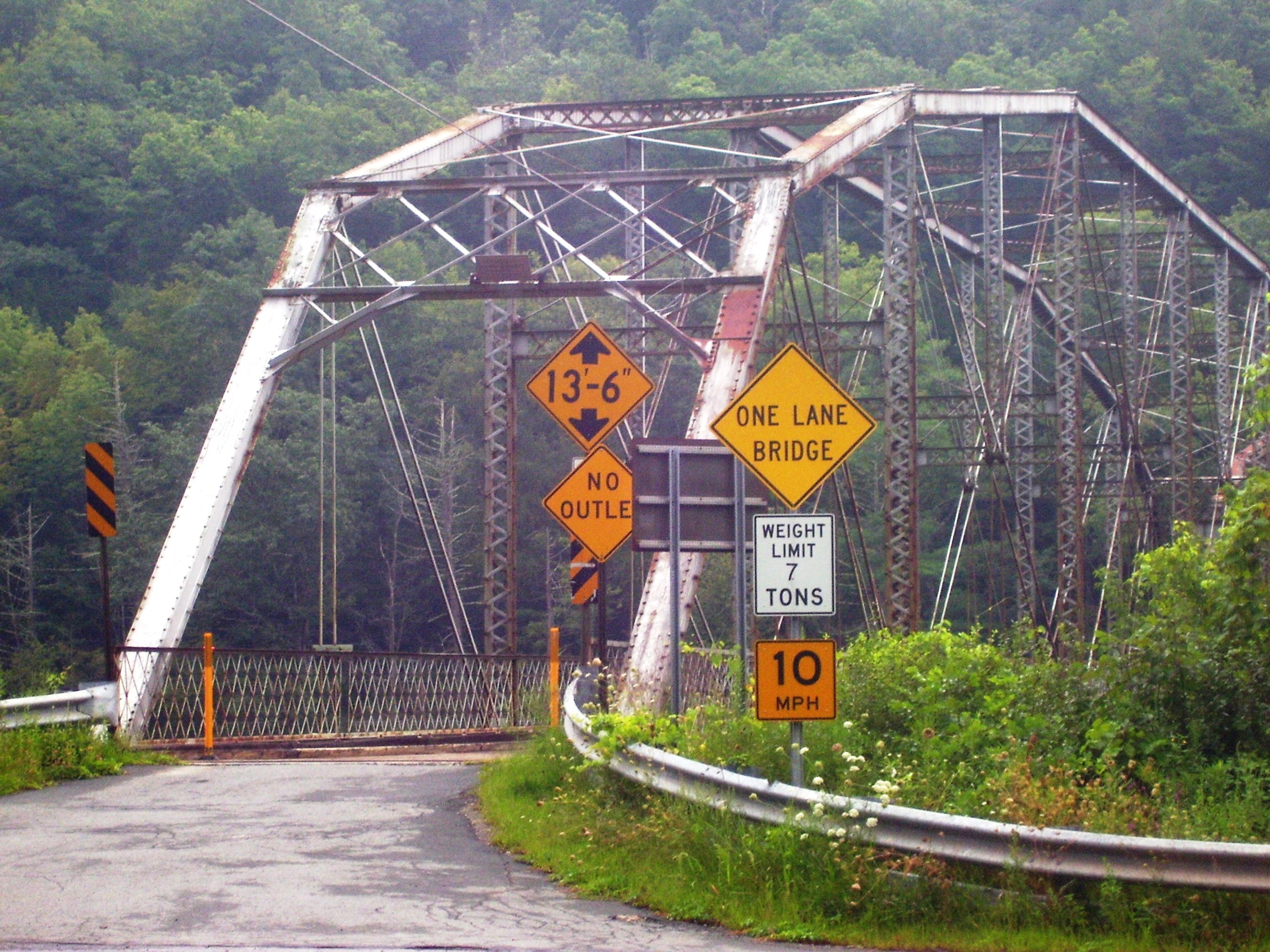 The New York approach to the Pond Eddy Bridge, from south on NY-97.